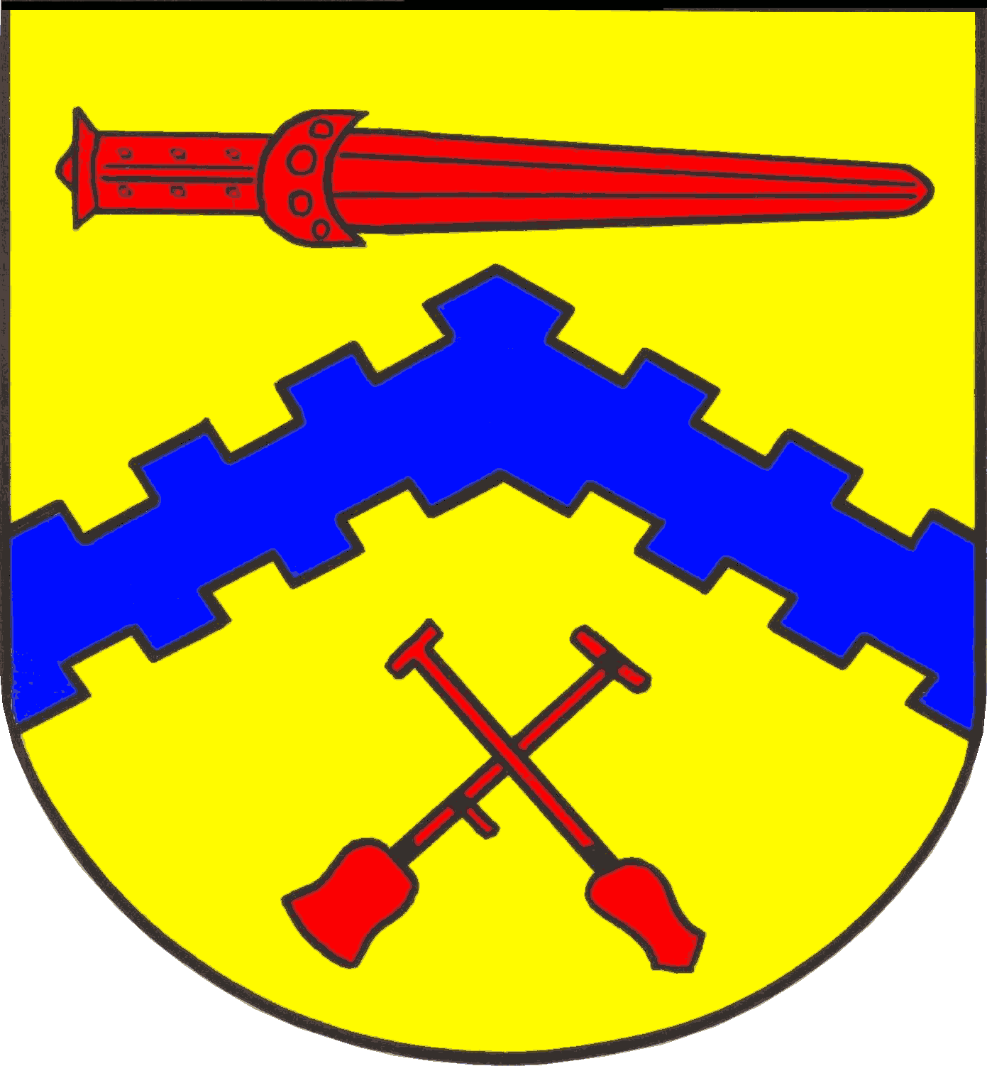 Coat of arms of the municipality Havetoftloit in Schleswig-Holstein, Germany.